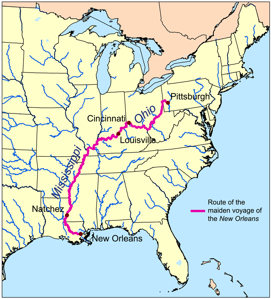 Map showing the maiden voyage of the New Orleans.